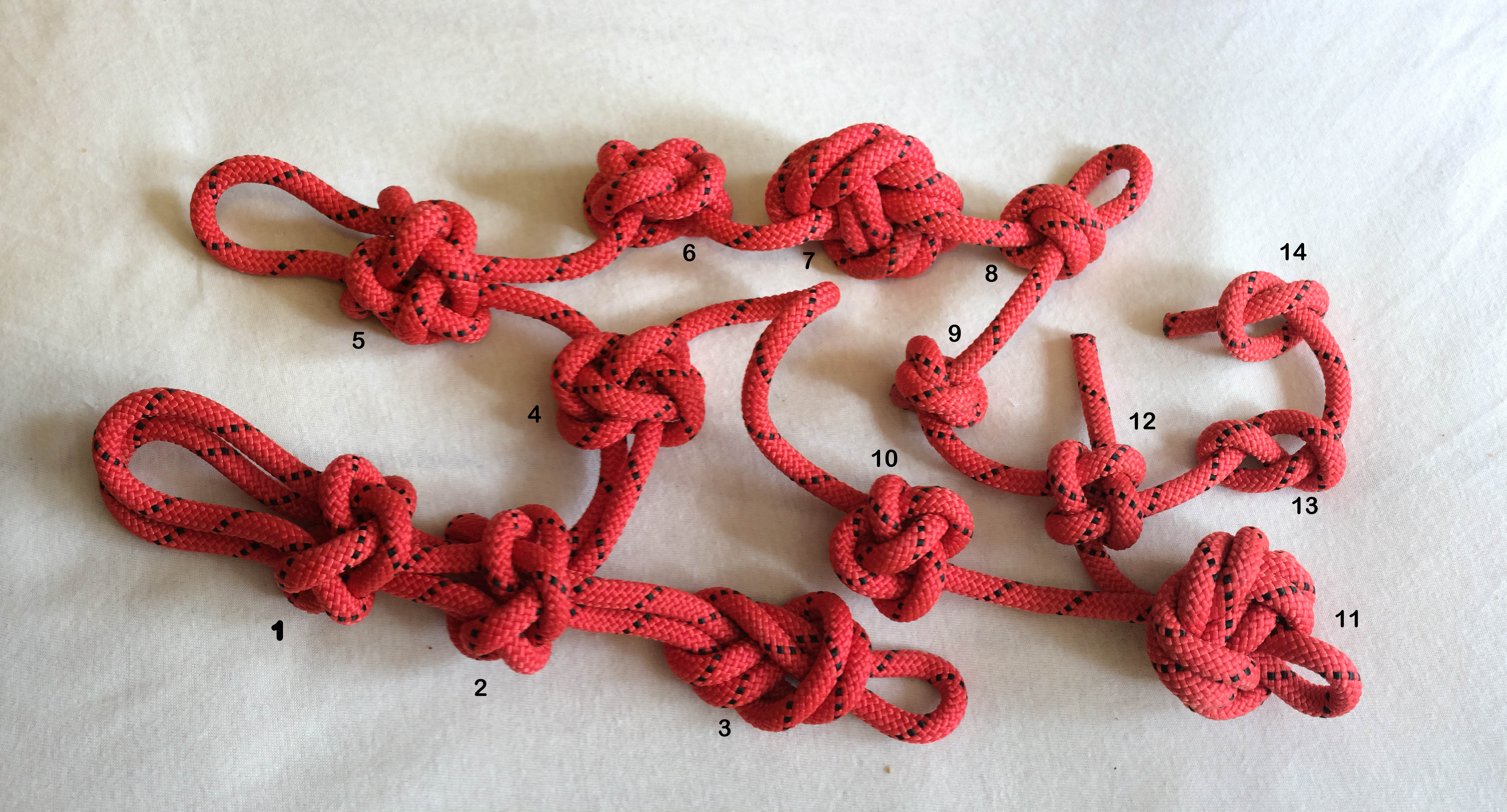 Decorative Stopper Knots 1- Fiador, 2- Sailor's diamond (#693), 3- Figure-eight loop, 4- Diamond, 5- Lanyard, 6- Chinese button, 7- Chinese button doubled, 8- Real lovers, 9- Ashley's, 10- Celtic button, 11- Celtic button on the bight (and thus doubled and with lanyard loop), 12- Friendship, 13- Figure-eight, 14- UnderhandTürkçe: Süsleyici durdurma düğümleri 1- 3 halkalı dizgin düğümü, 2- 3 halkalı dizgin düğümü, 3- dirsekte kropi, 4- Çift ipte düğme, 5- Çift ipte düğme(halkalı), 6- Çift ipte düğme, 7- Çift ipte iki katlı düğme, 8- Gerçek aşık, 9- Ashley, 10- Tek ipte düğme, 11- Tek ipte dirsekte (dolayısıyla iki katlı ve halkalı) düğme, 12- Japon, 13- Kropi, 14-Adi düğüm